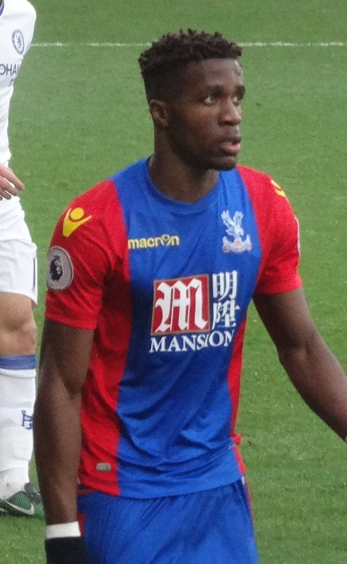 Wilfried Zaha playing for Crystal Palace against Chelsea at Selhurst Park, London on 17 December 2016